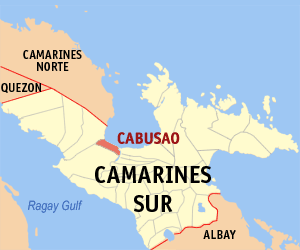 Map of Camarines Sur showing the location of Cabusao